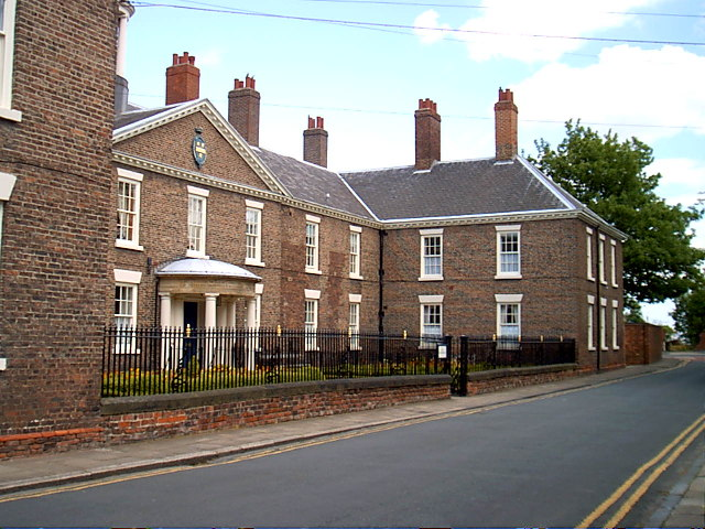 The Charterhouse. The Charterhouse on Charterhouse Lane in Hull.